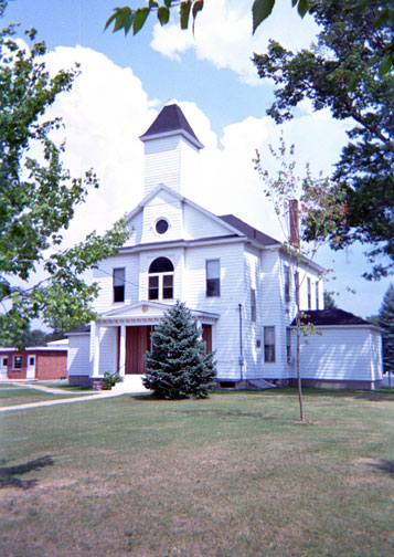 Front of the Oscoda County Courthouse, located along Morence Street in Mio, Michigan, United States. Built in 1888, it is listed on the National Register of Historic Places.